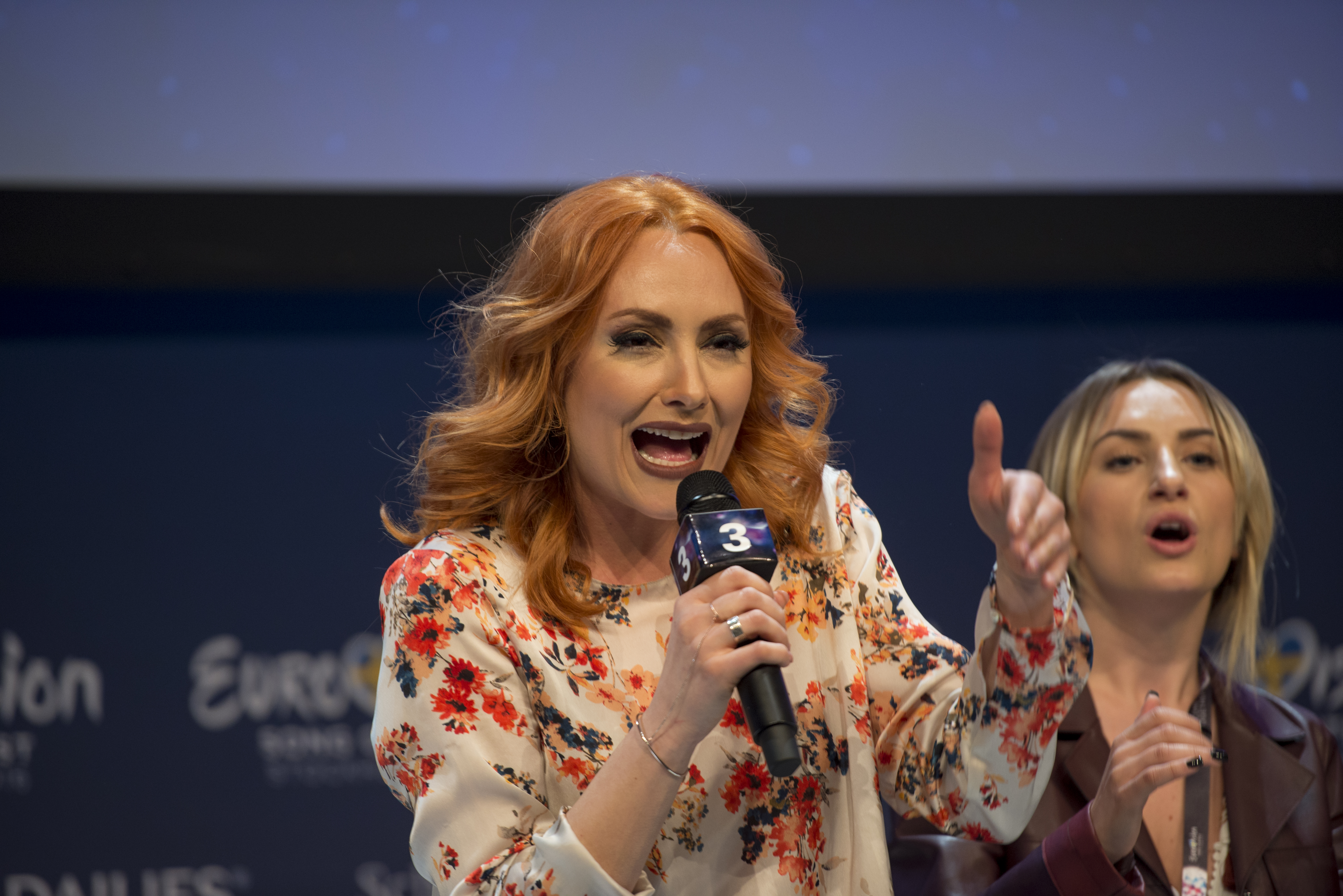 Eneda Tarifa at a Meet & Greet during the Eurovision Song Contest 2016 in Stockholm. (Help translate this text)